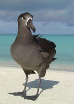 Black-footed albatrosses are occasionally seen at Kilauea Point. Their plumage is mostly dark though they can have up to 10% white plumage. Credit: USFWS